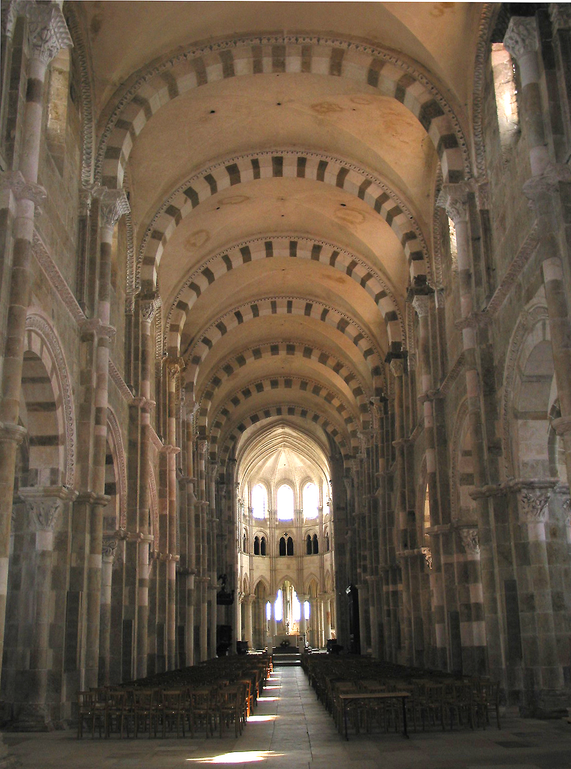 Vézelay (Yonne - France), nave and choir of Saint Magdalene Basilica (XII/XIIIth centuries).